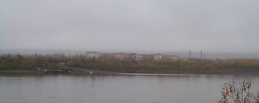 The town-type settlement Debin, Yagodninsky District, Magadan Oblast viewed through the morning mist over the Kolyma River.